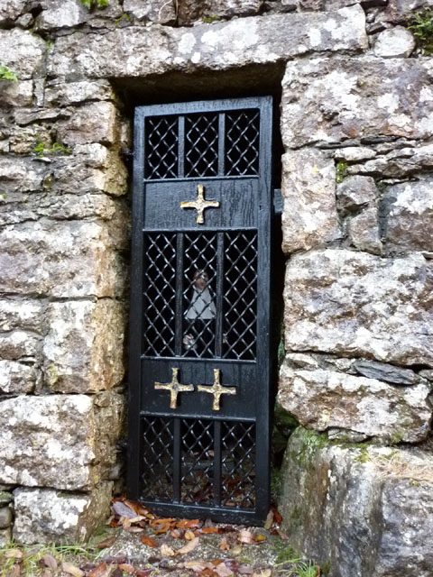 Roadside shrine to St Lioba, Slack Head